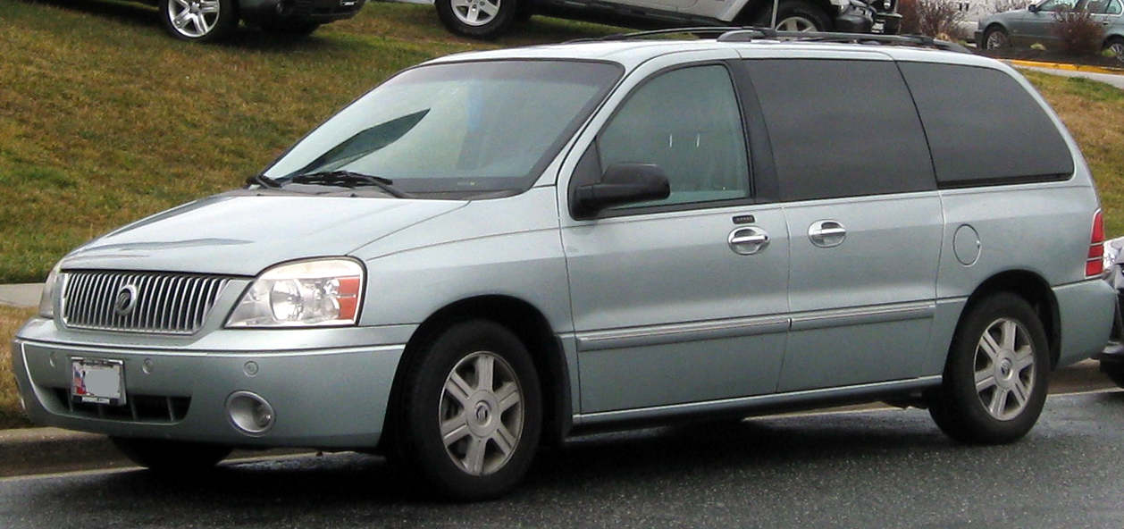 Mercury Monterey photographed in Silver Spring, Maryland, USA.